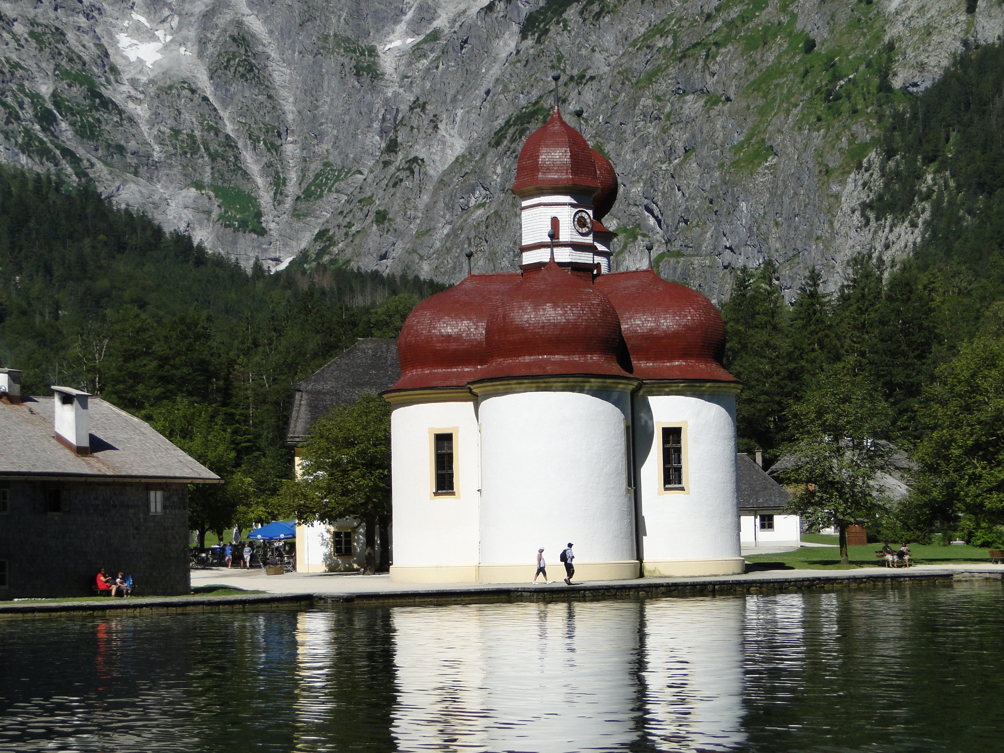 Chapel of St Bartolomew at Koenigssee (Bavaria - Germany)